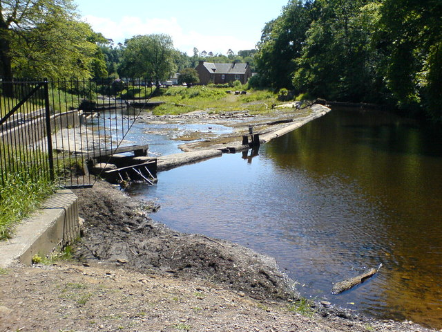 The weir across the River Ayr The weir across the River Ayr this used to supply water to the mills.